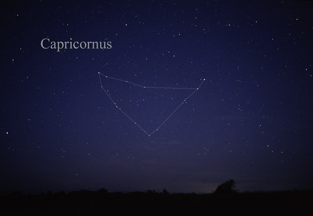 Photography of the constellation Capricornus, the sea goat